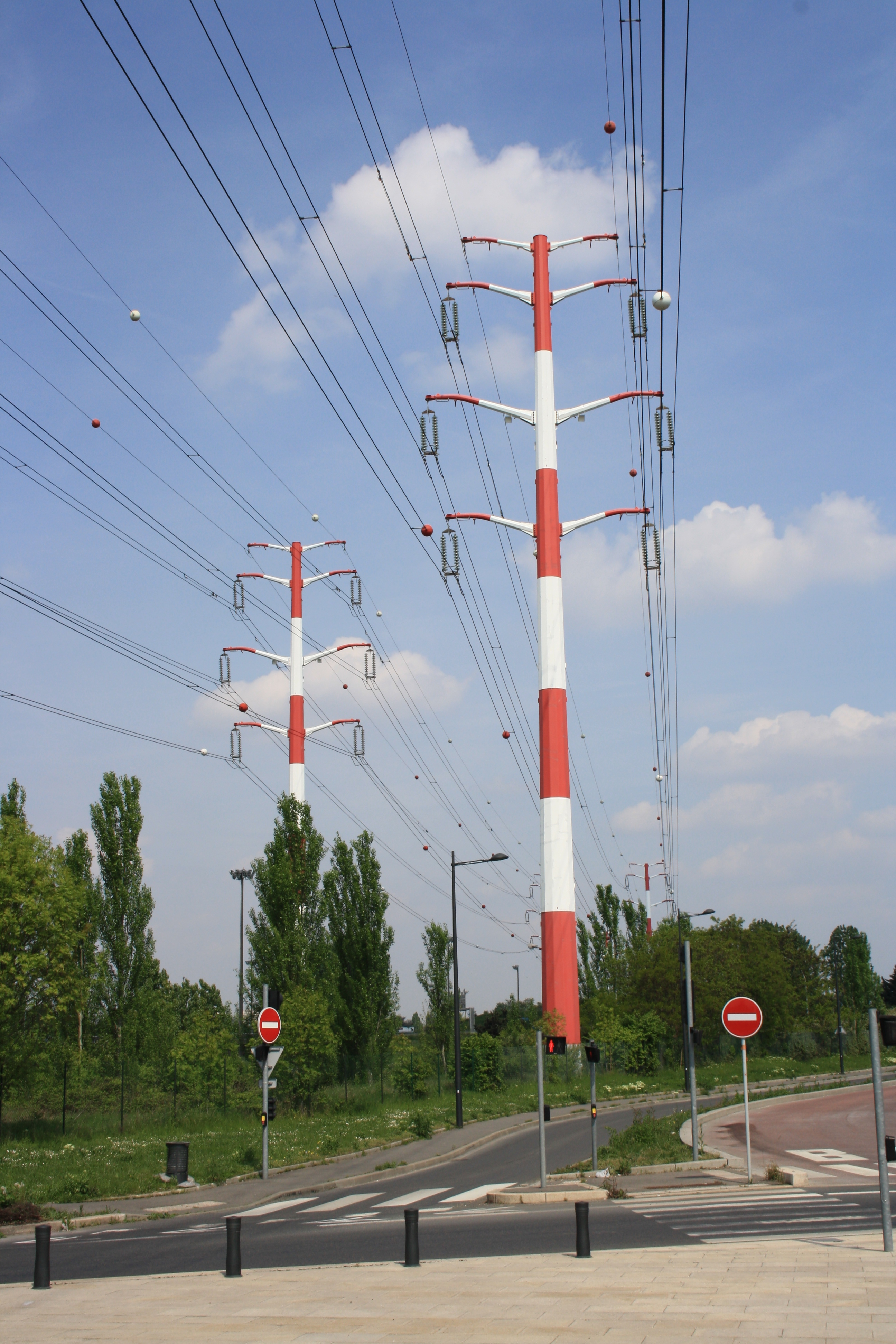 High Voltage Power Line in Fresnes near Paris, France